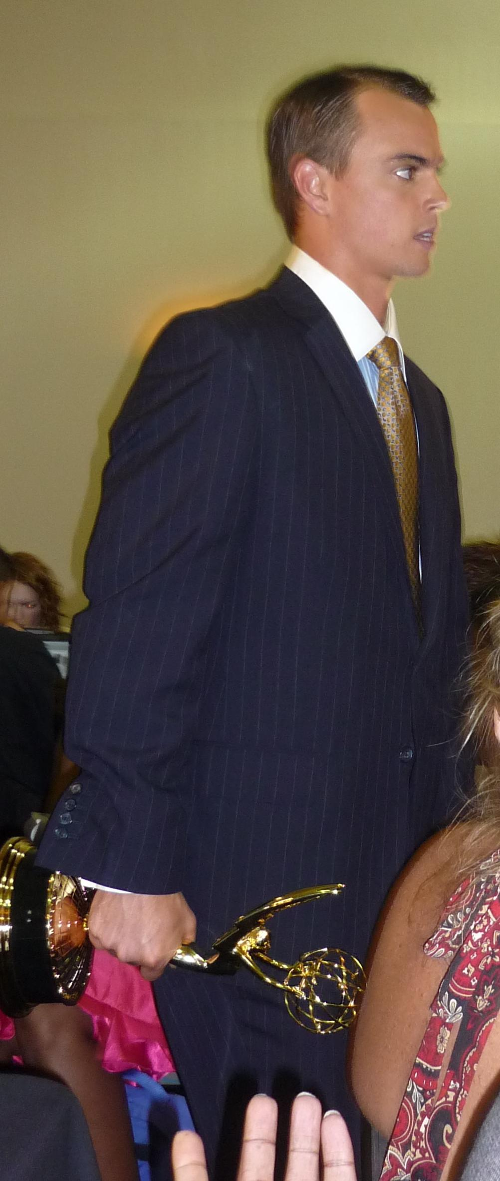 Actor Darin Brooks at 36th Daytime Emmy Awards in 2009.